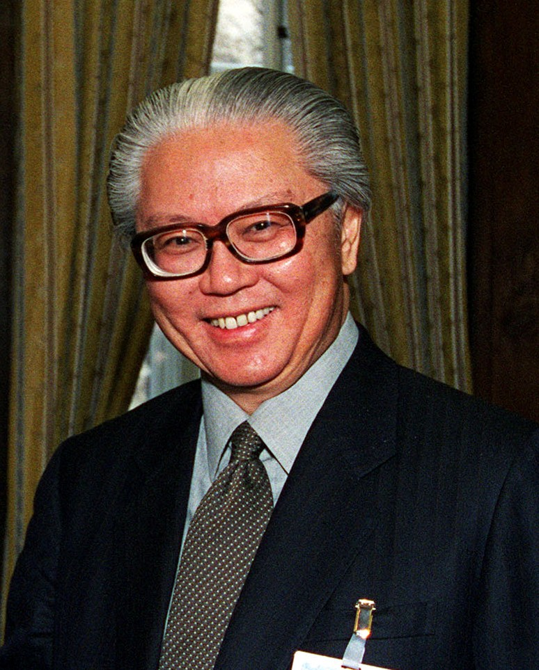 Deputy Prime Minister and Minister of Defense Tony Tan of the Republic of Singapore, 37th Munich Conference on Security Policy